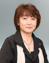 Kazuko Kōri was the Parliamentary Secretary of Cabinet Office on October, 2012.